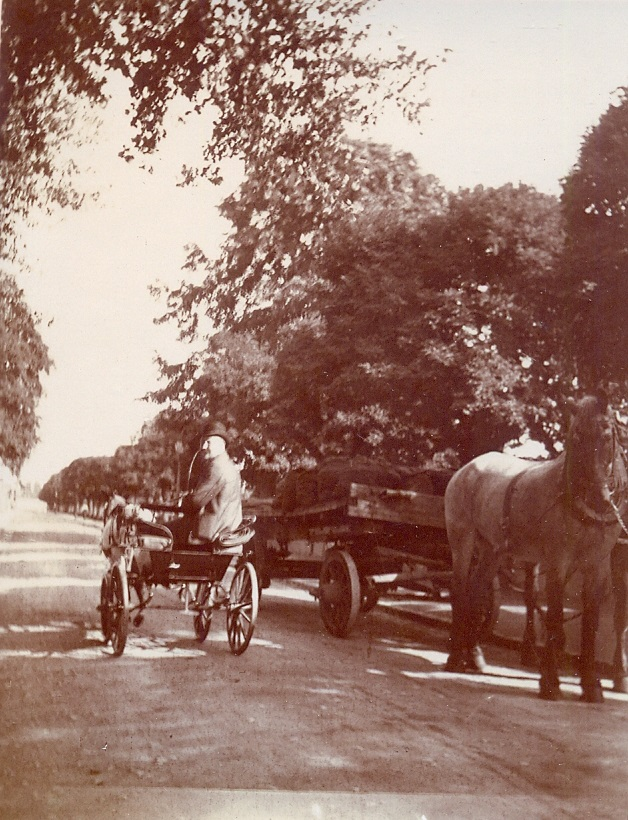 Bulgarian colonel Nikifor Nikiforov, Berlin, 1904-1910.